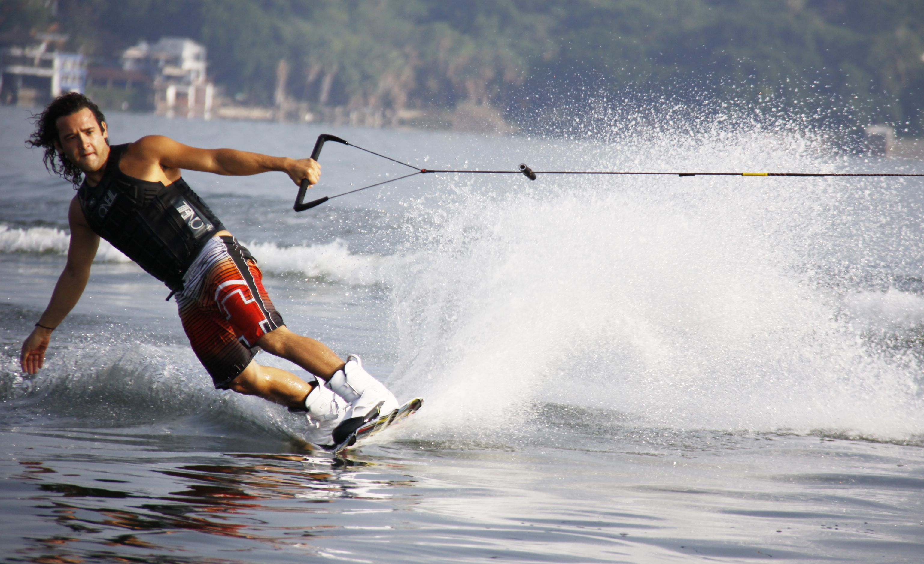 Wakeboarding Marco Díaz photography